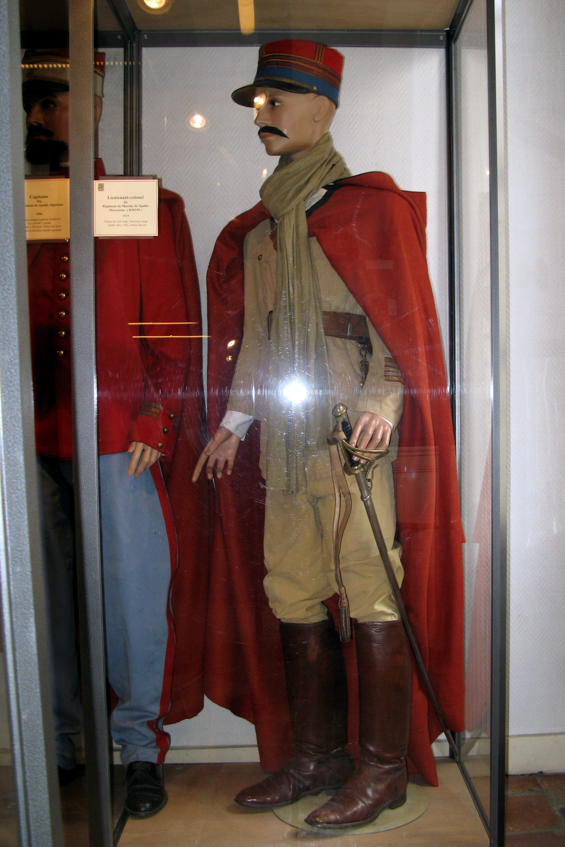 Lieutenant-colonelMusée des Spahis, Senlis